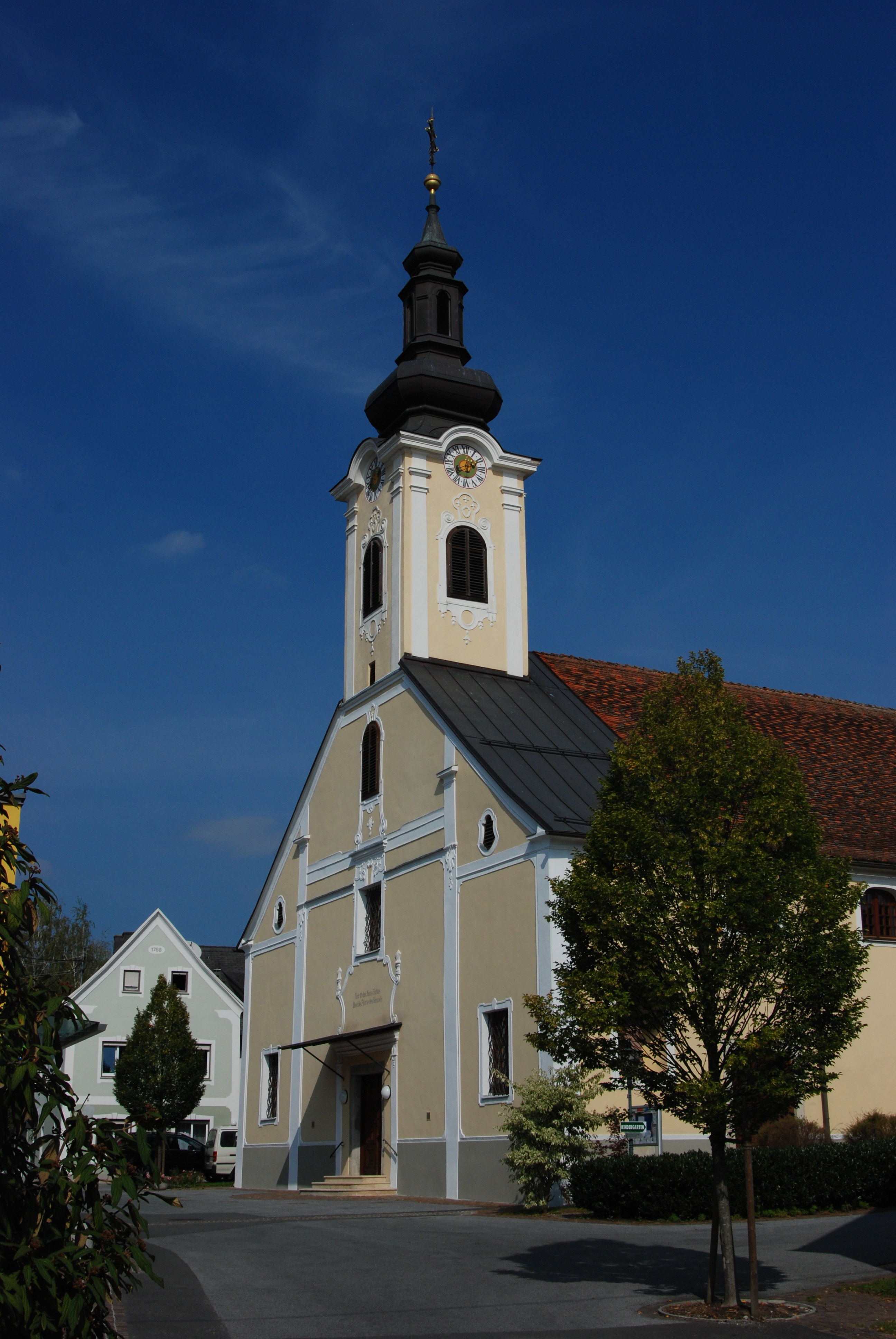 Pfarrkirche Großsteinbach